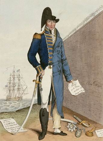 Things as they have been. Things as they now are. Caricature of Lord Cochrane made shortly after his conviction for fraud in 1814. The left side of the image depicts Cochrane as a heroic naval officer. He wears his Royal Navy uniform and on the floor beside him is a list of his notable battles. The right side depicts him as a disgraced civilian within the walls of the King's Bench Prison. His sword, epaulette and badge of the Order of the Bath lay broken and scattered on the floor.